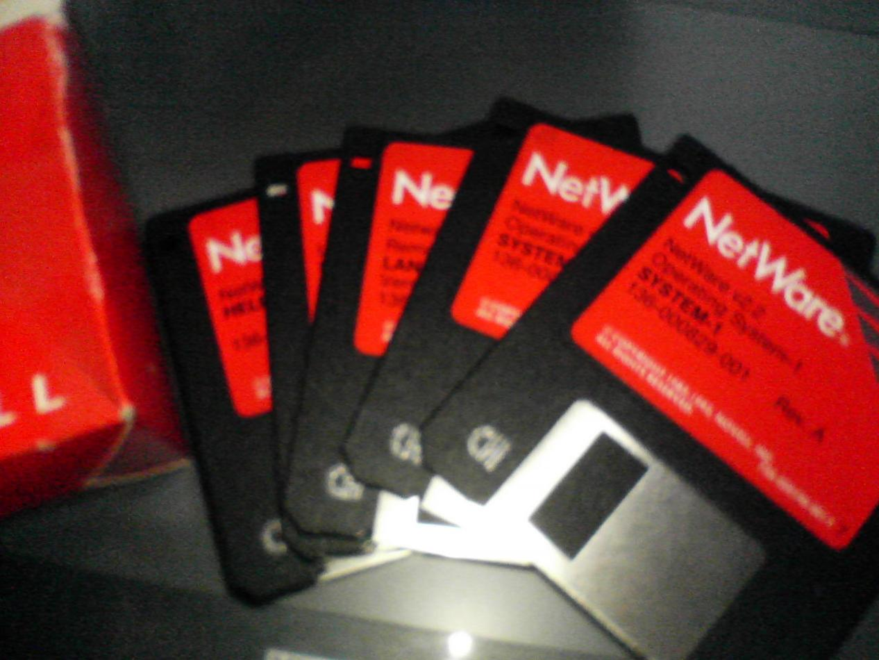 2 floppies for system files netware 2.2